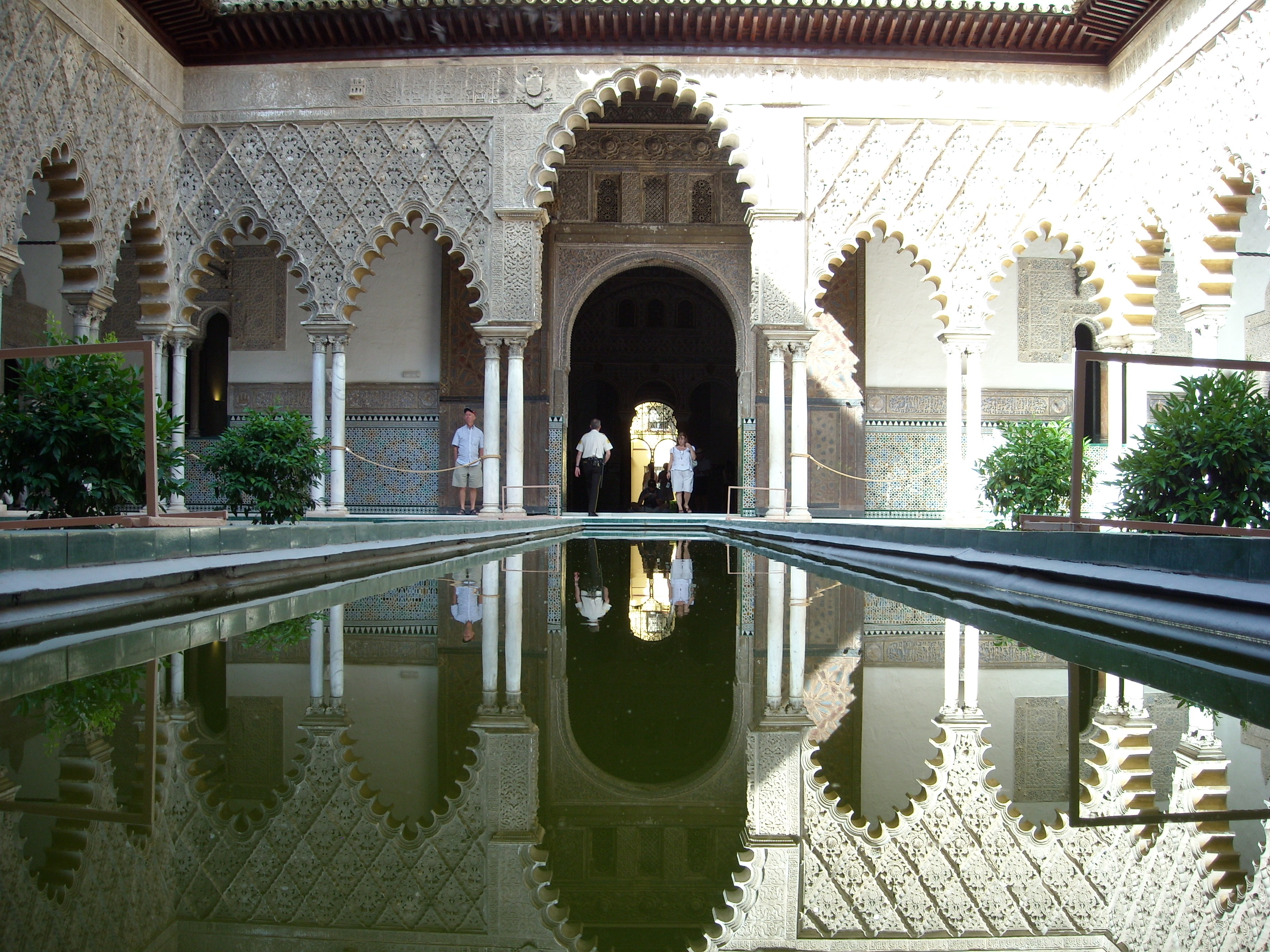 In the Real Alcázar, in Seville. More Mudejar style, columns, cusped arches, Kufic script, water, symmetry, simply beautiful.